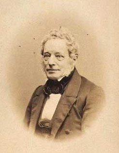 Johannes Georg Smith Harder, known as Hans Harder (1792-1873), Danish landscape painter